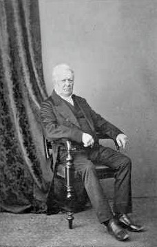 Portrait of Sir James Hurtle Fisher, South Australian pioneer. Sir James Hurtle Fisher, one of South Australia's most important pioneers, who arrived in Holdfast Bay in the Buffalo on December 28th, 1836. As South Australia's first Resident Commissioner, he controlled the sale of land in the colony.